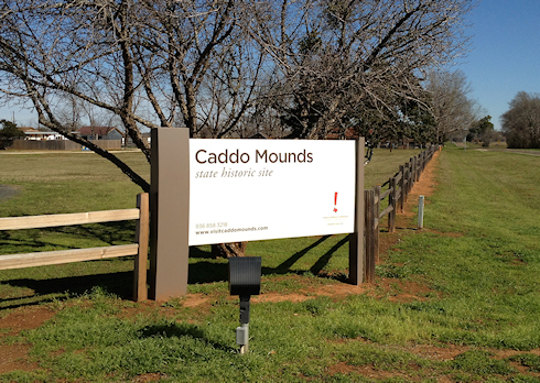 Caddo Mound Texas State Historic Site Park near Alto, Texas